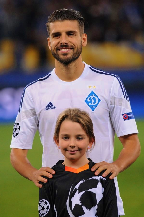 Miguel Veloso